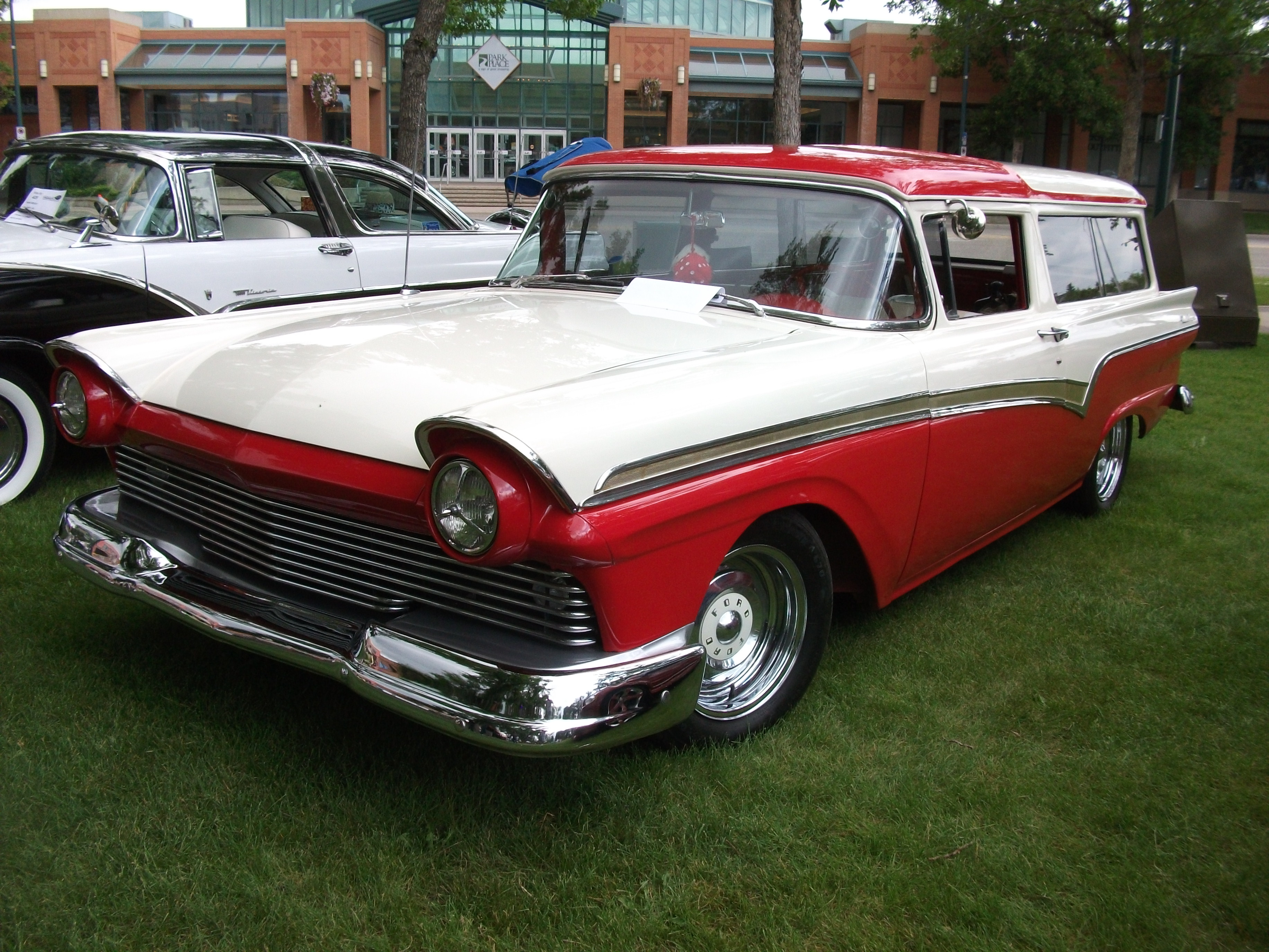 Two tone 1957 Ford King Ranch